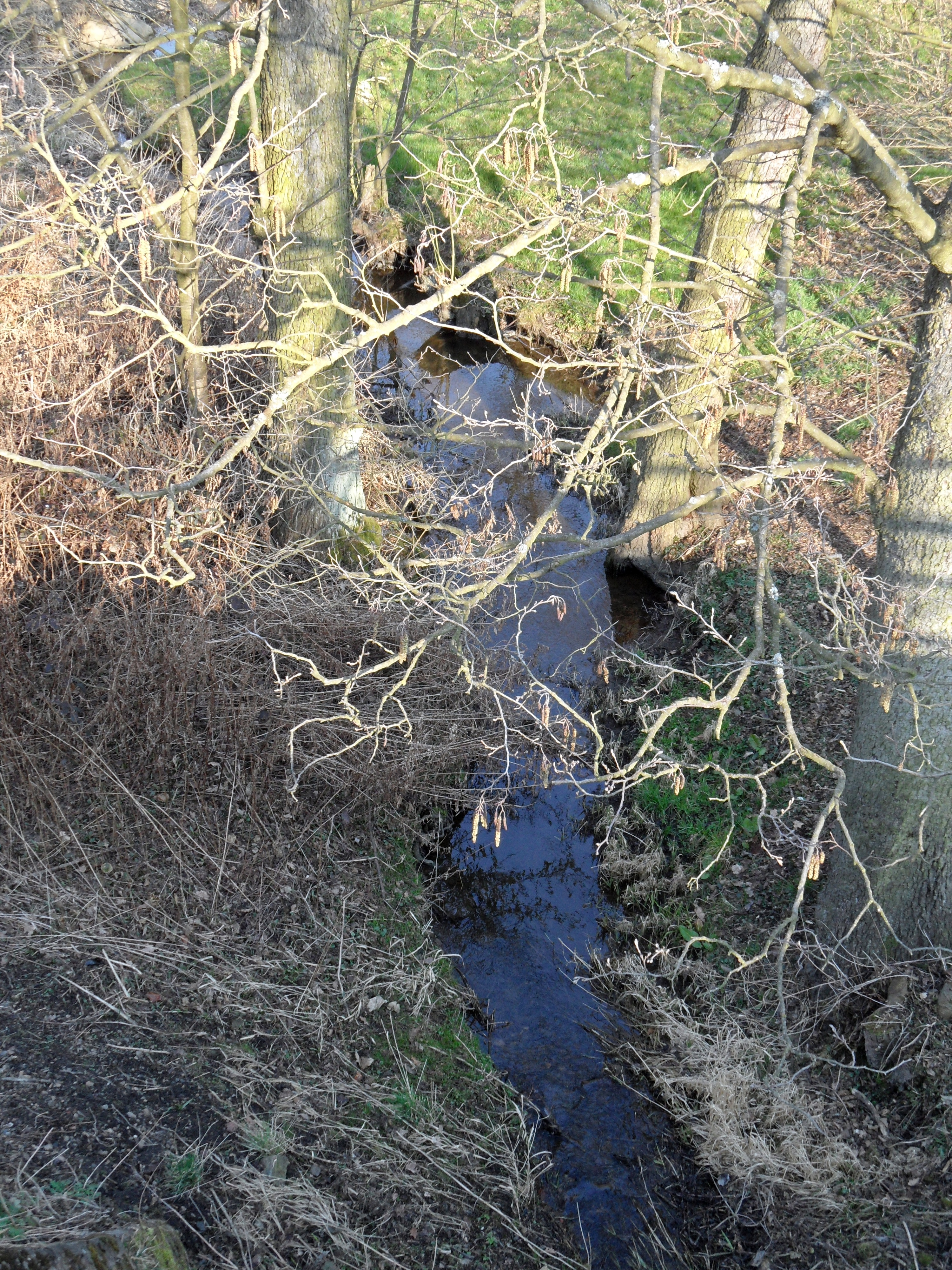 Římovice K. Římovický Creek. Havlíčkův Brod District, the Czech Republic.